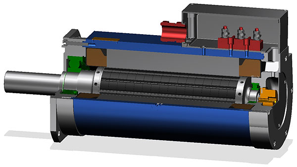 Motor sinkron